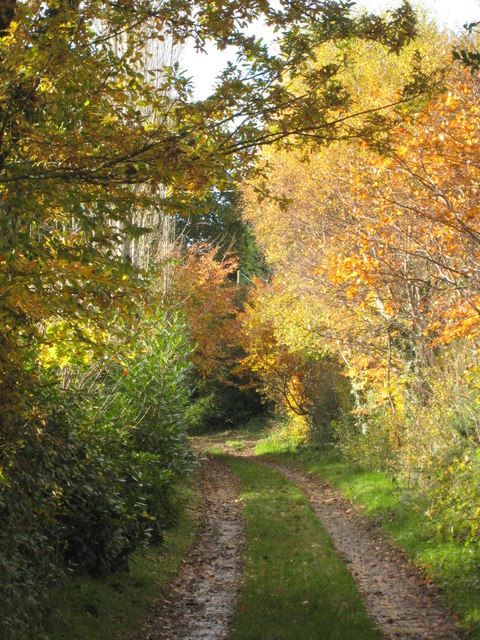 Autumn colour along a footpath at Angarrick